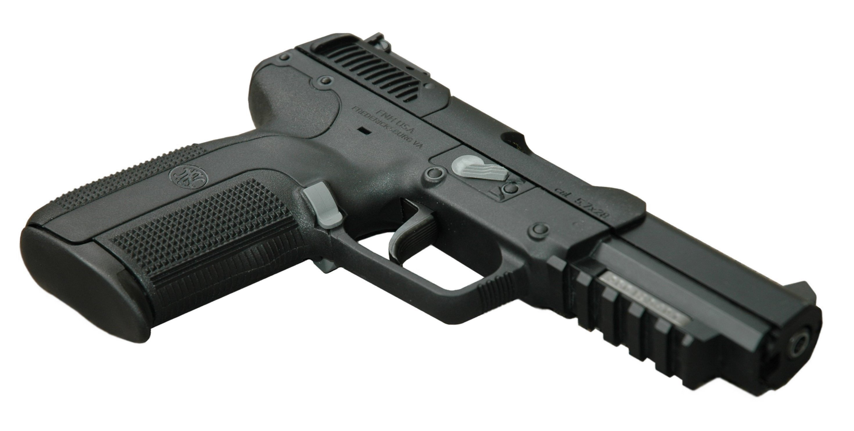 FN Five-seveN USG pistol.